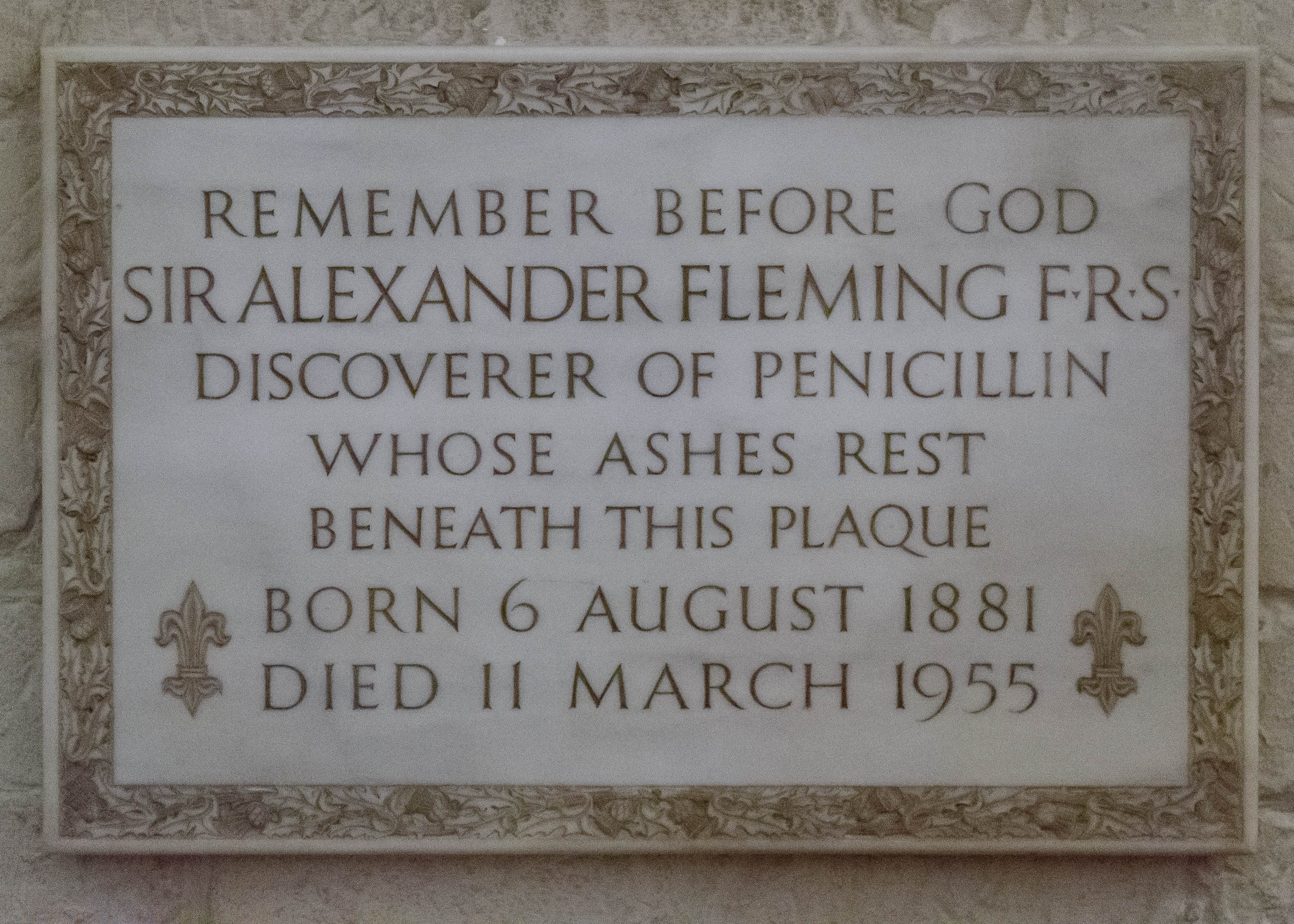 St. Pauls Cathedral, London: Plaque above the grave of Sir Alexander Fleming, discoverer of Penicillin